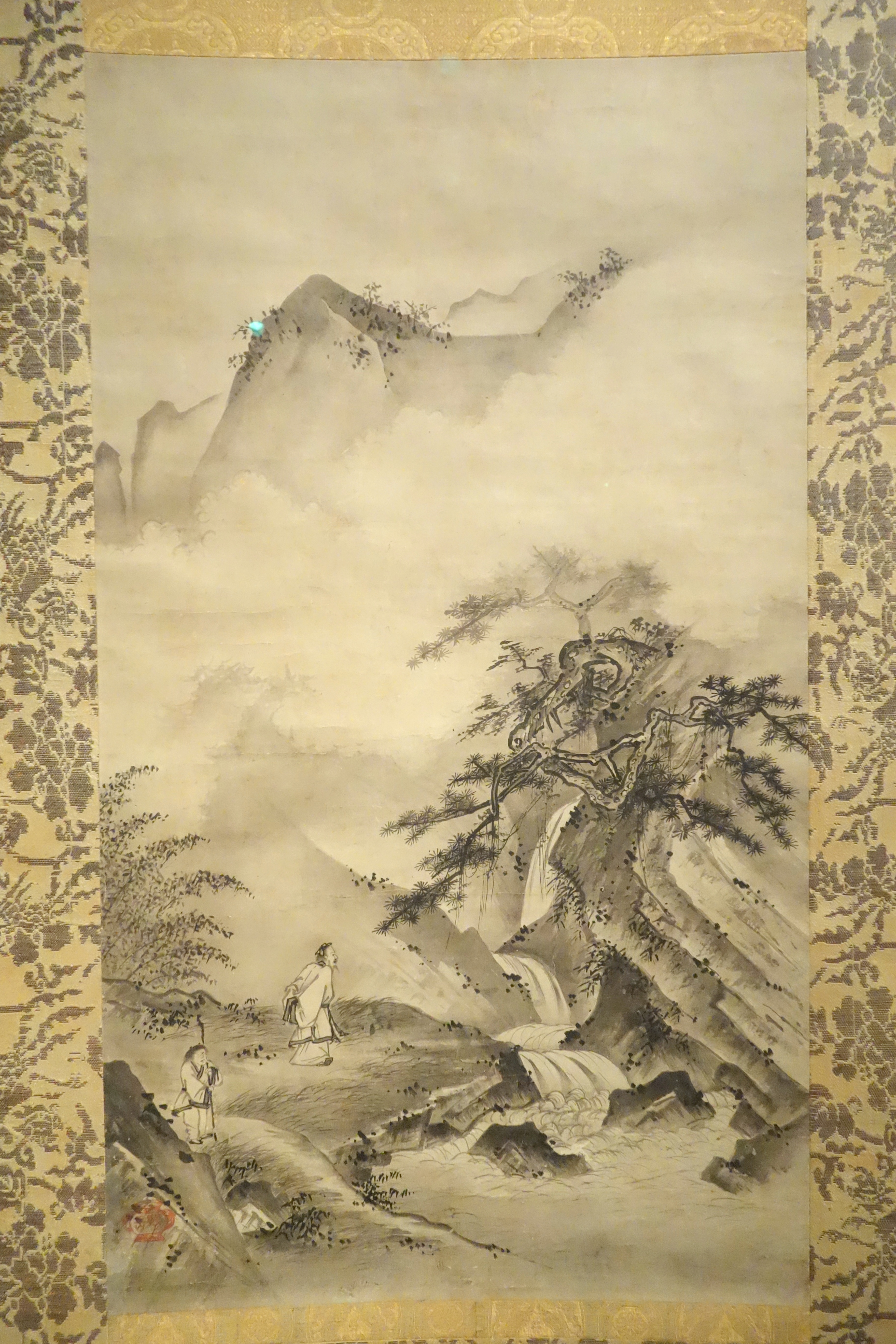 Exhibit in the Asian Art Museum of San Francisco, San Francisco, California, USA. This artwork is in the public domain because the artist died more than 70 years ago.